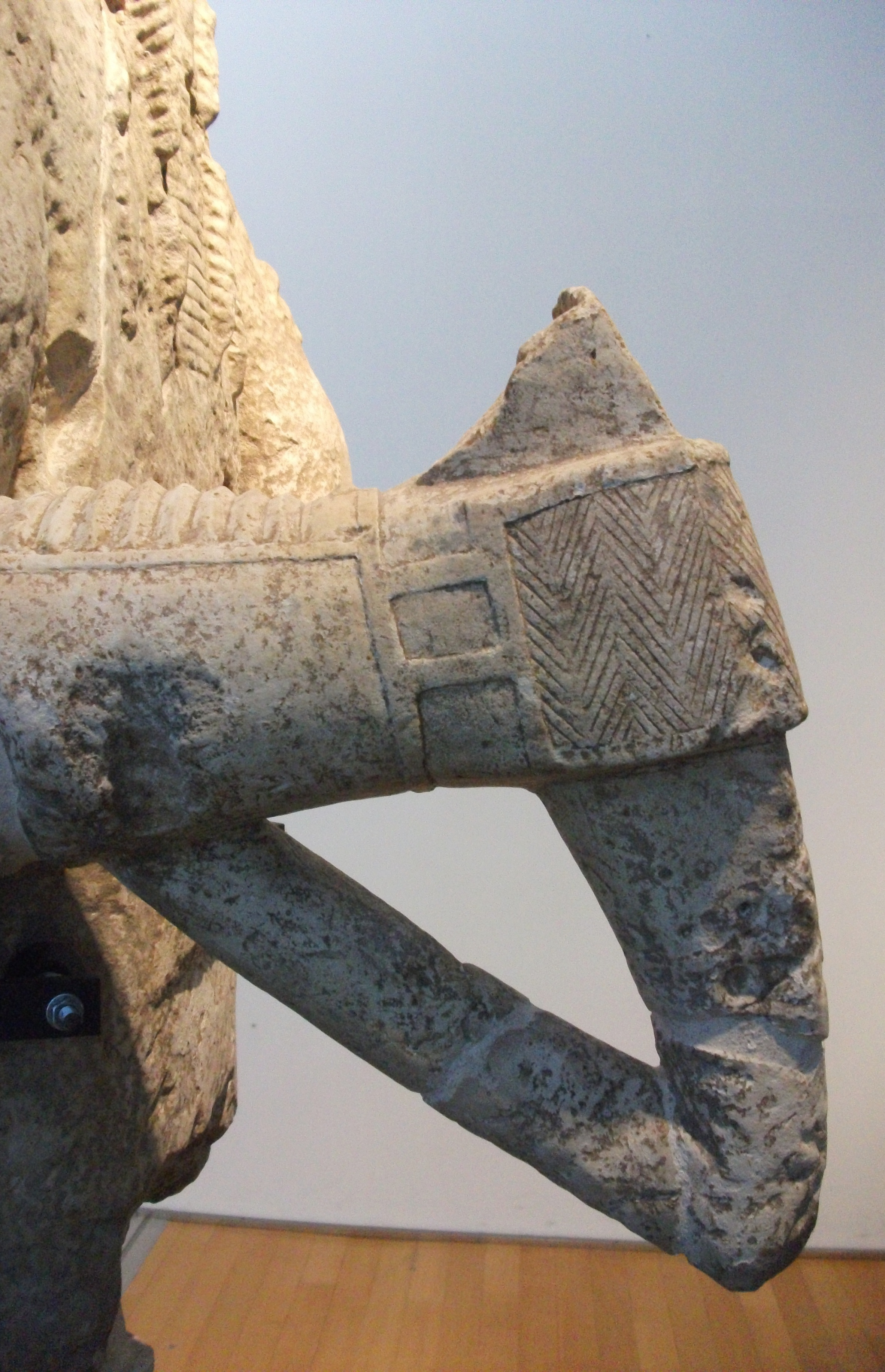 Brassard, archer, Monte prama, sculpture, Nuragic civilization, Sardinia